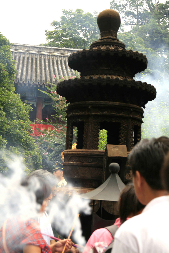 The Tanzhe Temple of Beijing